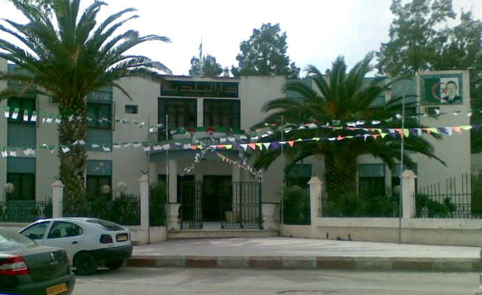 m'daourouch